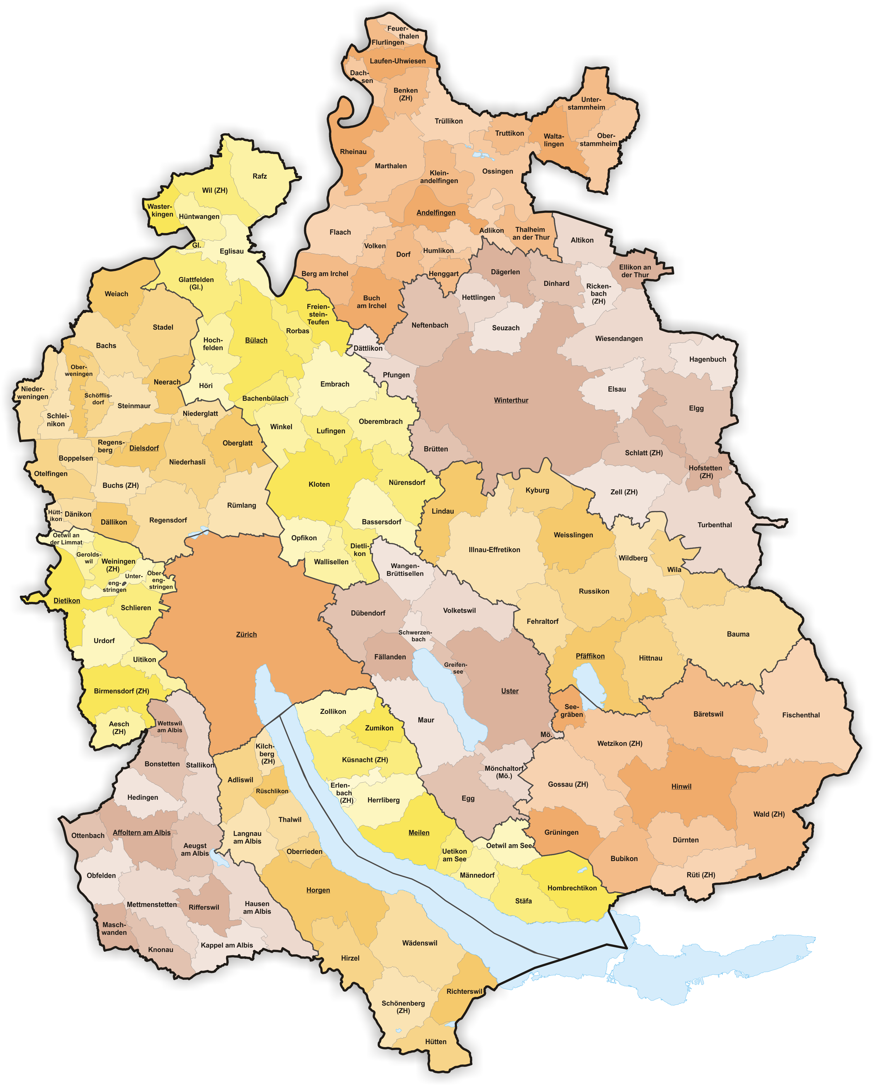 Municipalities in Canton Zürich